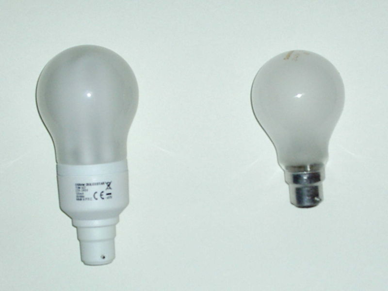 CFL bulb with an envelope designed to look like a "conventional" incandescent bulb, with a conventional bulb for comparison